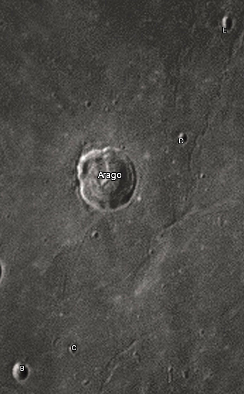 Arago lunar crater as seen from Earth with satellite craters labeled